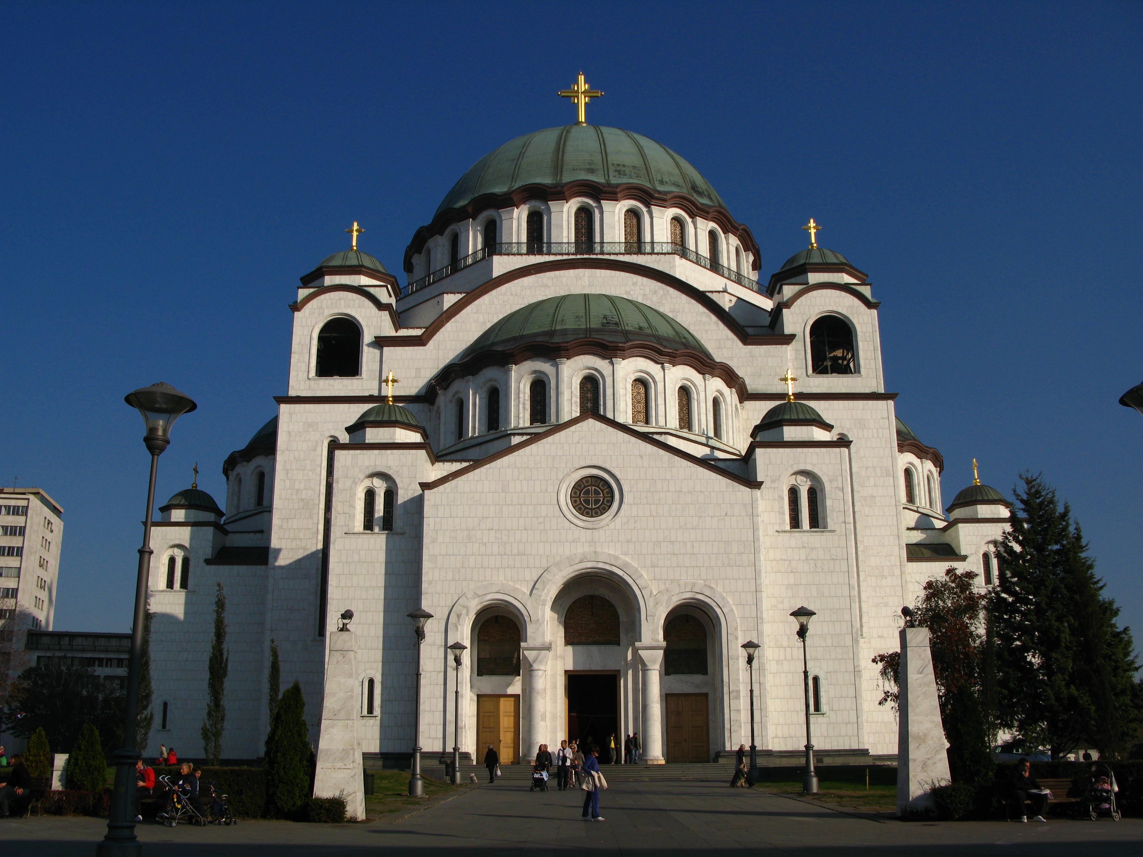 Church St. Sava in Belgrade, Serbia.